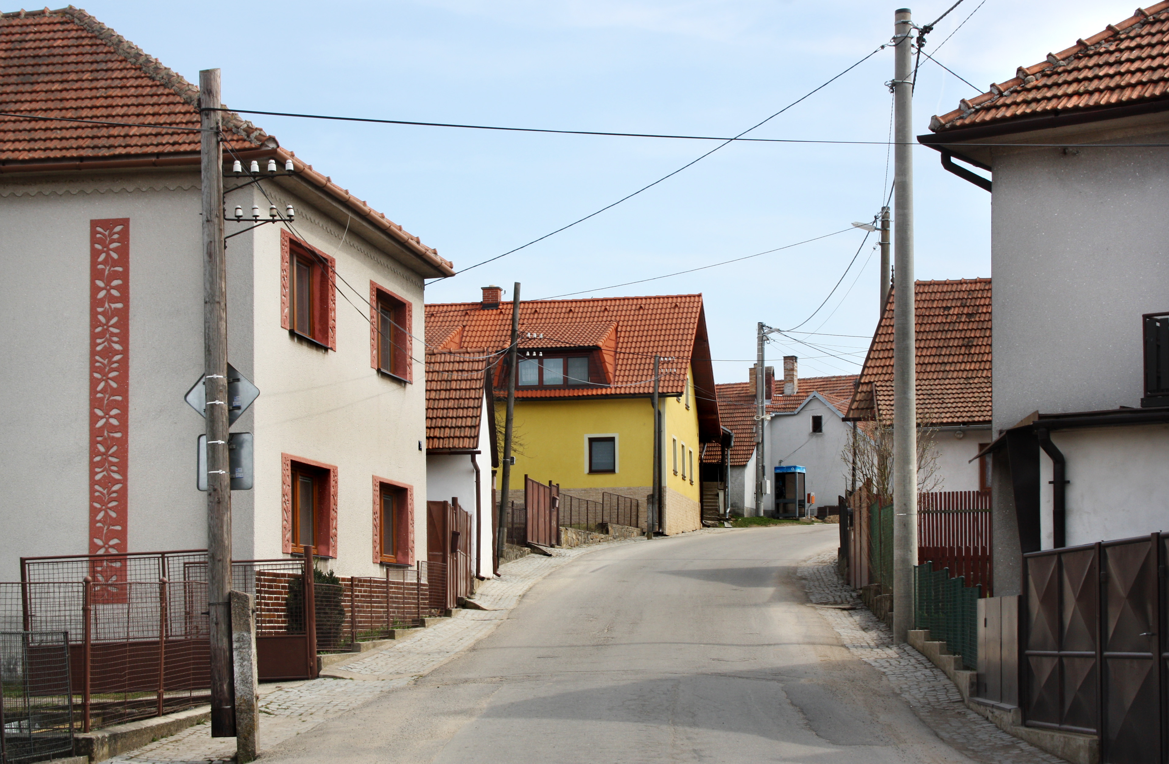 Road No 349 in Otín